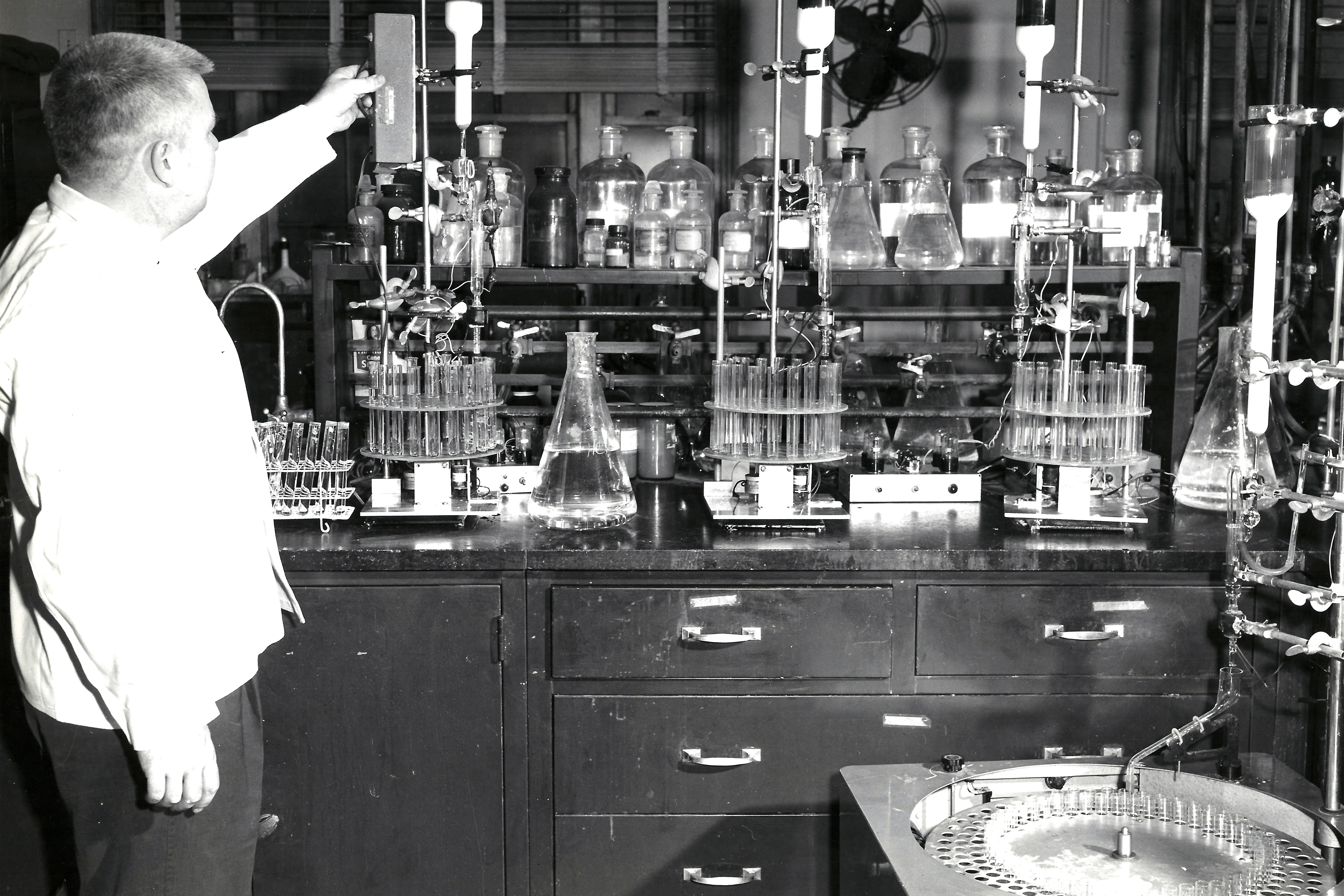 An unidentified FDA scientist from the 1960s works to assure safe coal-tar colors used in foods, drugs, and cosmetics by using an ultraviolet lamp to detect impurities, which visibly fluoresce under ultraviolet light. For more information on FDA History, please visit